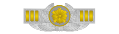 Brooch rank insigna for sergeant of japanese police